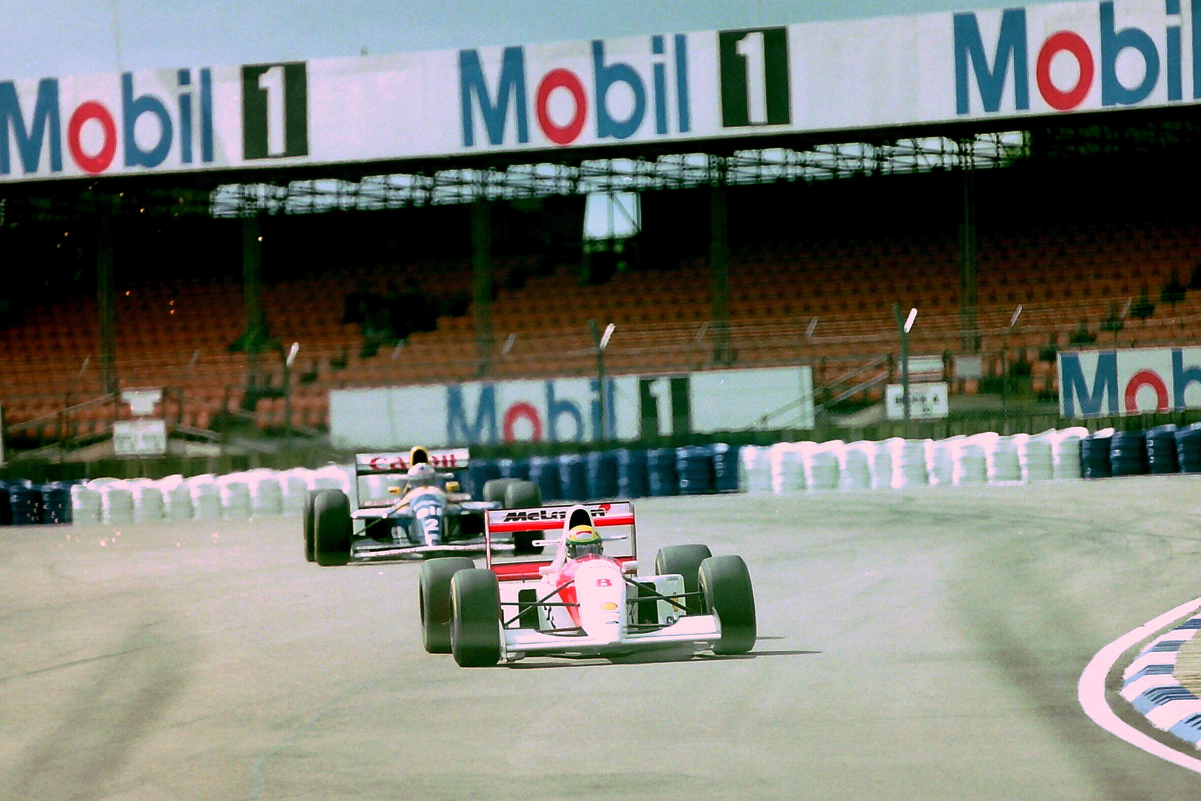 Ayrton Senna - Mclaren MP4-8 and Alain Prost - Williams FW15C during practice for the 1993 British Grand Prix